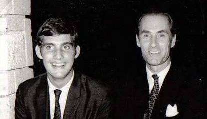 Erik Edelstam with his father, Harald Edelstam, in Manila 1967.